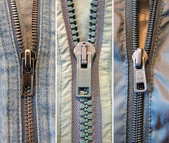 Metal-, Plastic- and Nylonzipper